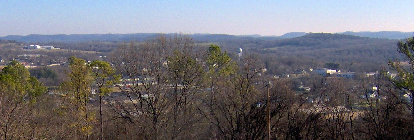 Hartsville, Tennessee, in the southeastern United States, viewed from Greentop.